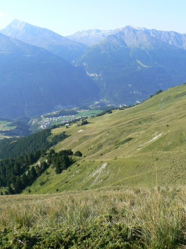 Sardières,(France's village in Alpes in National Park of Vanoise)